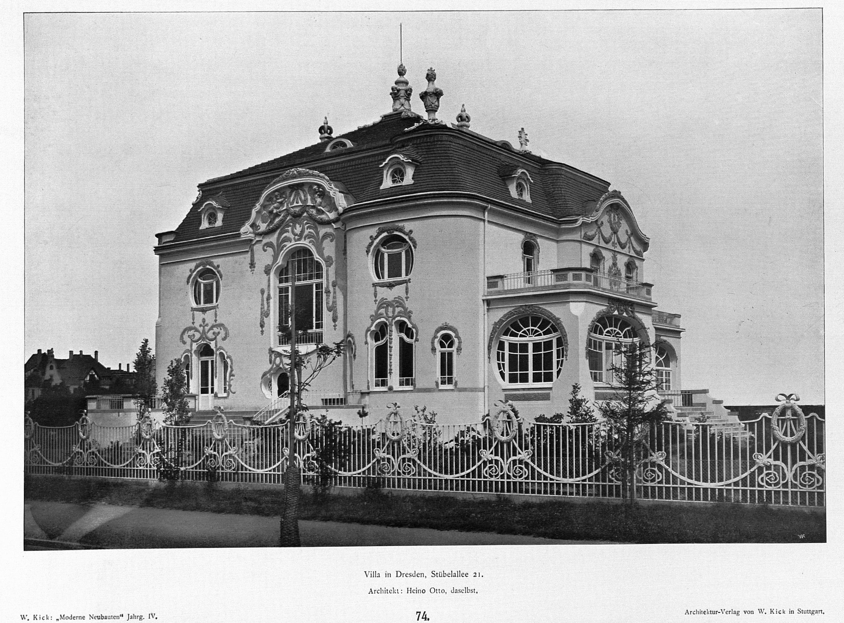 Villa_in_Dresden_Stübelallee_21_Gesamtansicht_Architekt_Heino_Otto_Dresden.jpg